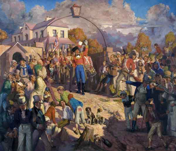 Major Johnston announcing governor Bligh arrest in Syndey, during the Rum Rebellion